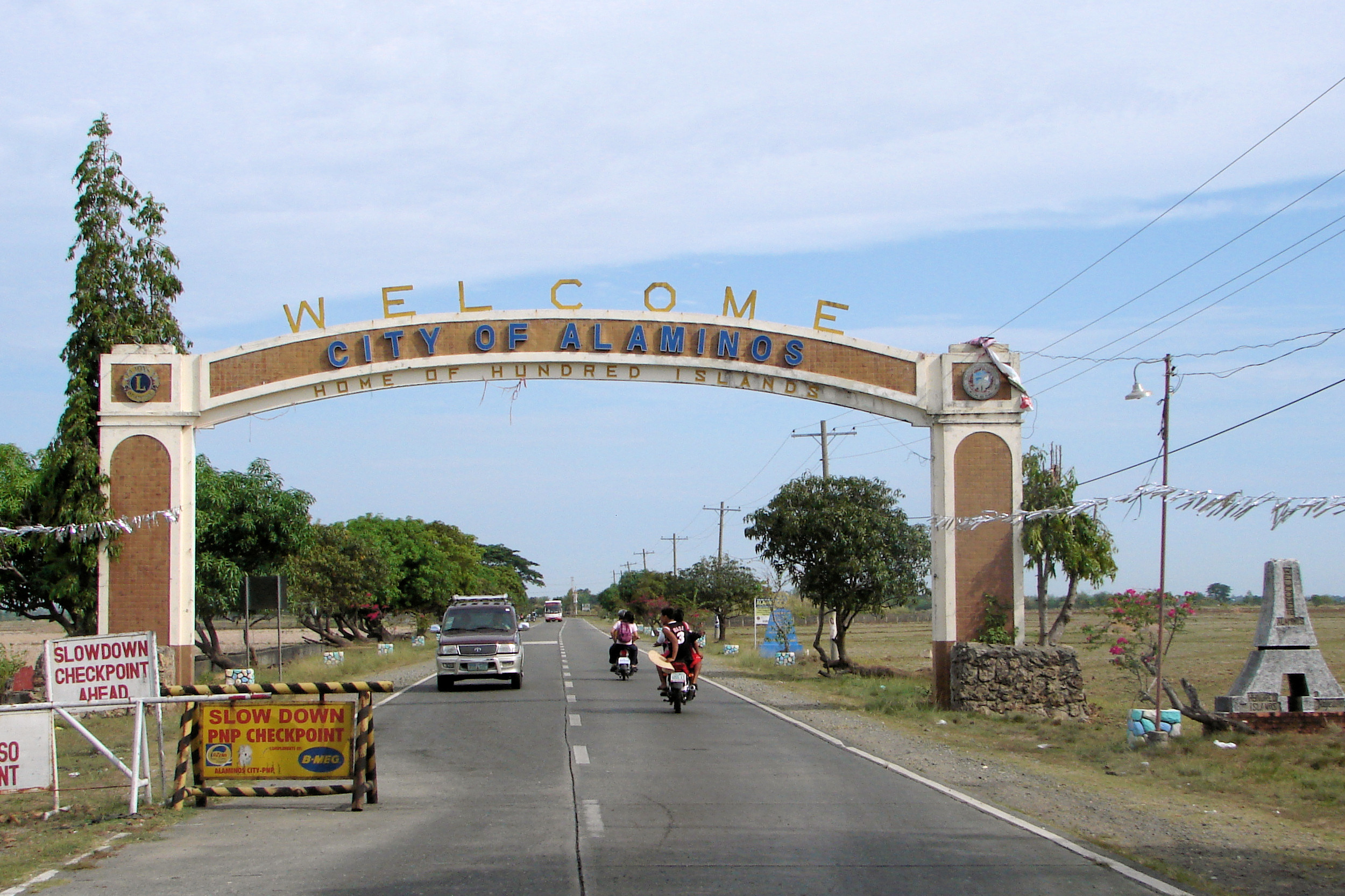 Welcome sign of Alaminos, Pangasinan, Philippines